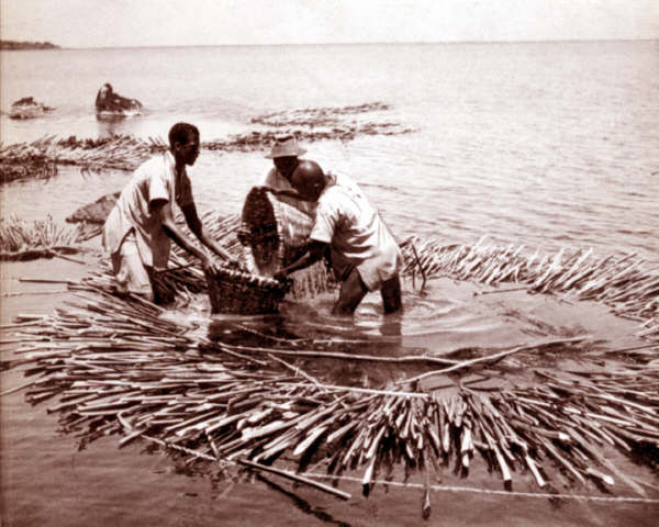 Luo Fishermen on the lake Victoria (1949?)